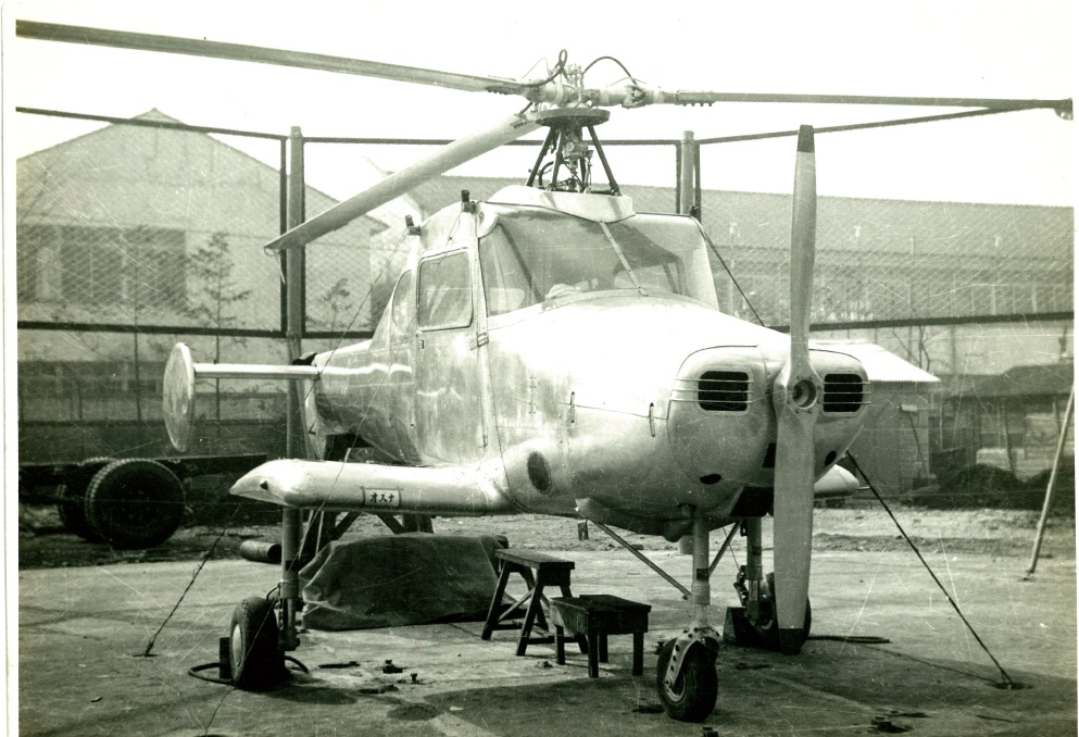 In March 1952, Kayaba Industry began developing "Heliplane Type-01" (Gyrodyne ) which combines the advantages of autogyro and helicopter, taking advantage of the experience of Kayaba Ka-1, autogyro for reconnaissance, artillery-spotting, and anti-submarine uses which was produced during the Pacific War.